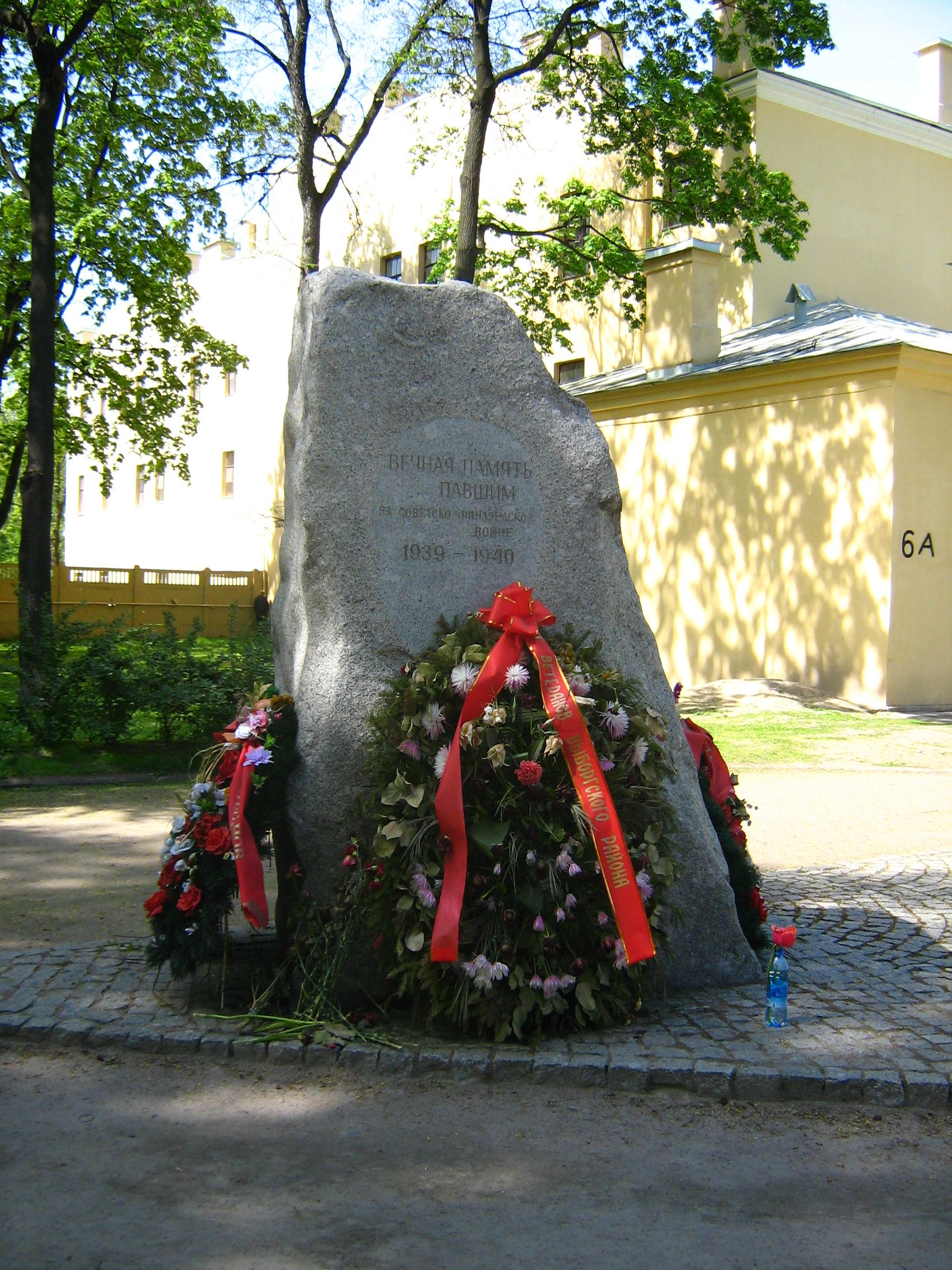 Monument, devoted to the victims of the Soviet–Finnish War 1939–1940 (also known as the Winter War) (Academika Lebedeva street, 6-a, St.-Petersburg, Russia)